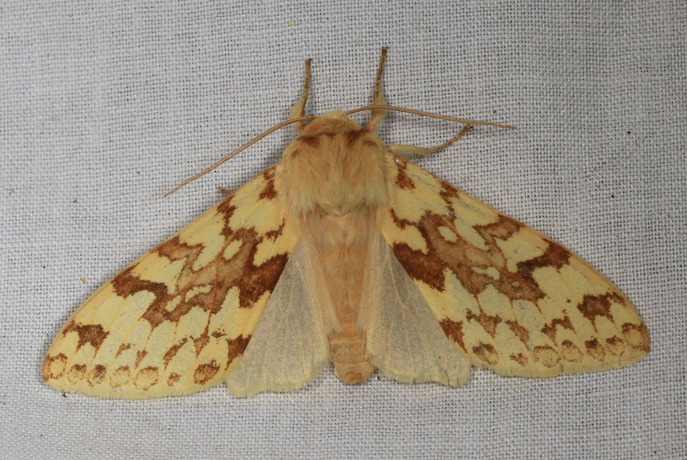 Day 178 - Spotted Tussock Moth - Lophocampa maculata, SFSU Field Campus, Bassetts, California